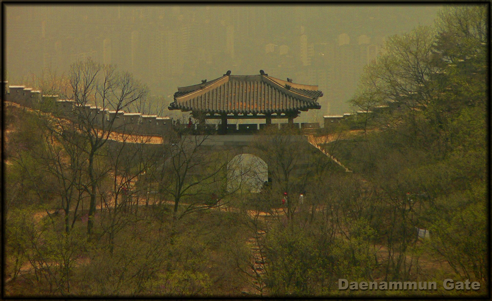 Daenammun gate of Bukhansan, mountain located on the north side of Seoul, South Korea.